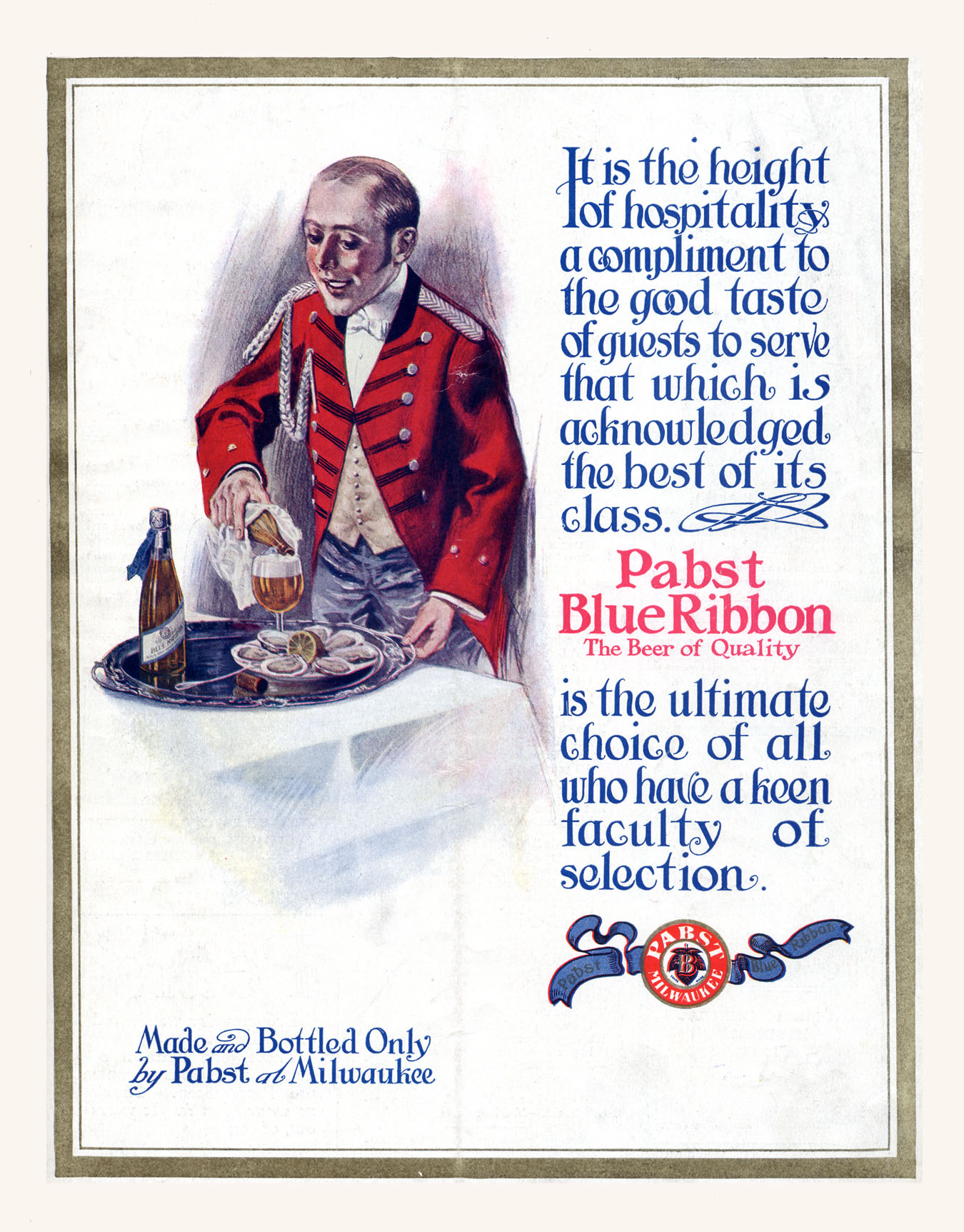 This is a Pabst Blue Ribbon beer advertisement from the back cover of the June 10, 1911 issue of Judge Magazine. The beer was originally called Best Select, then Pabst Select and finally Pabst Blue Ribbon. A blue ribbon was tied around the bottle neck; this practice ran from 1882 until 1916. The magazine page was 11.5 by 9 inches in size.